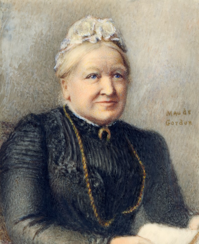 Oil painting of Catherine Spence by Maude Gordon.